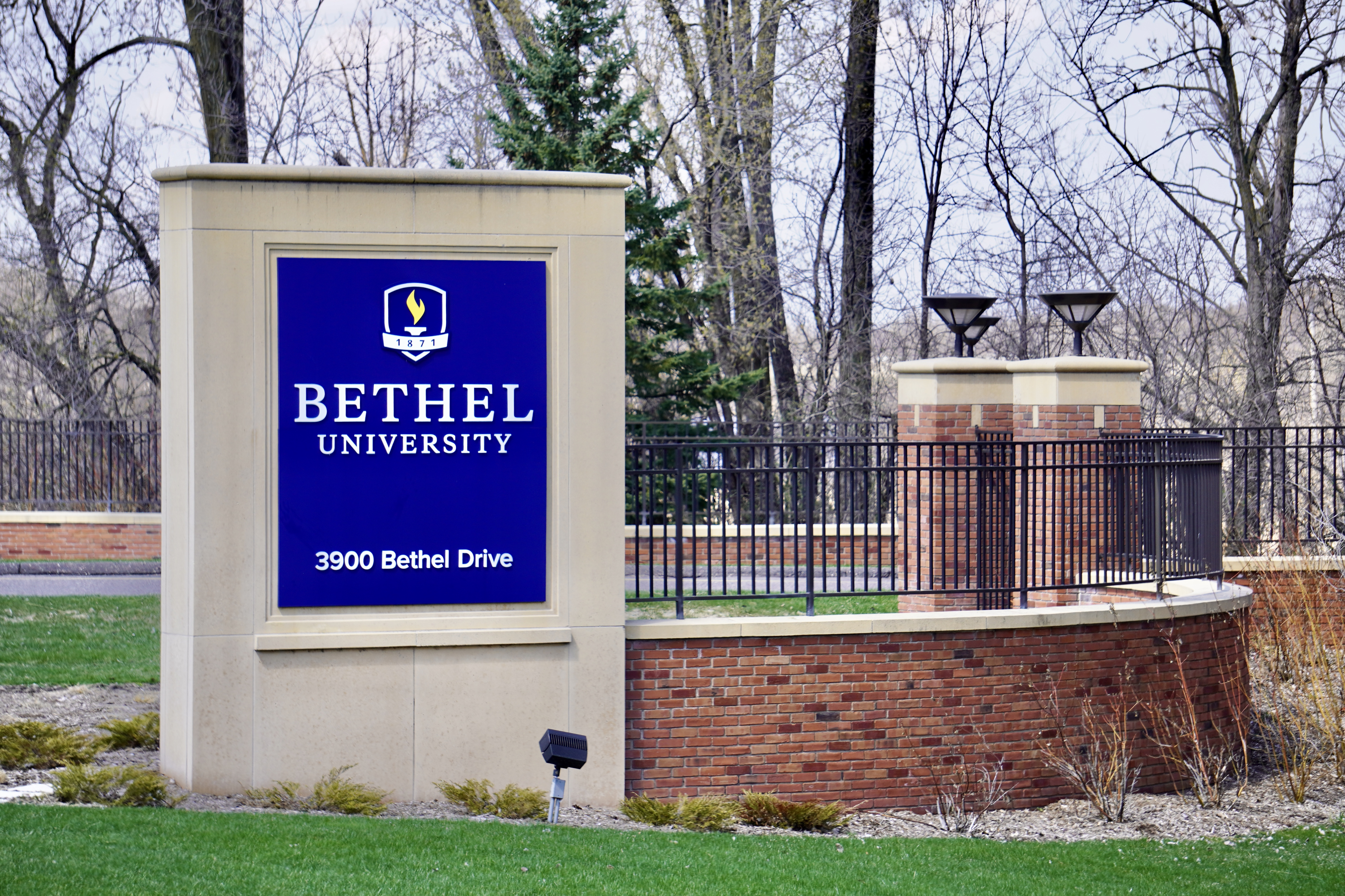 The main entrance to Bethel University located on the university's west side